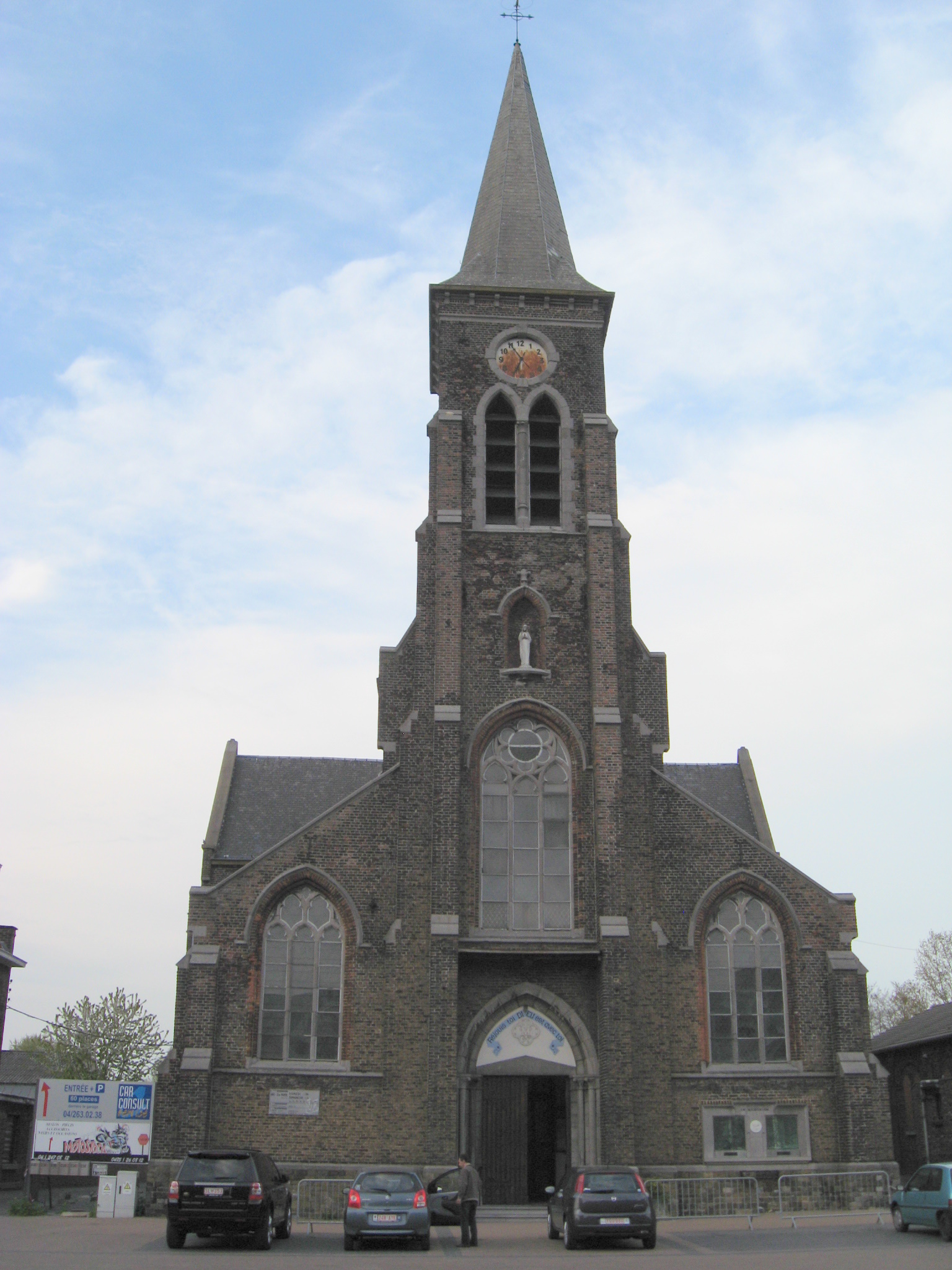 Church of Saint Mary in Ans, Liège, Belgium